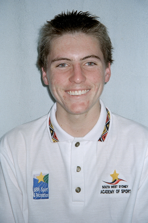 Portrait of Australian swimmer Patrick Donachie, 2000 Australian Paralympic Team athlete